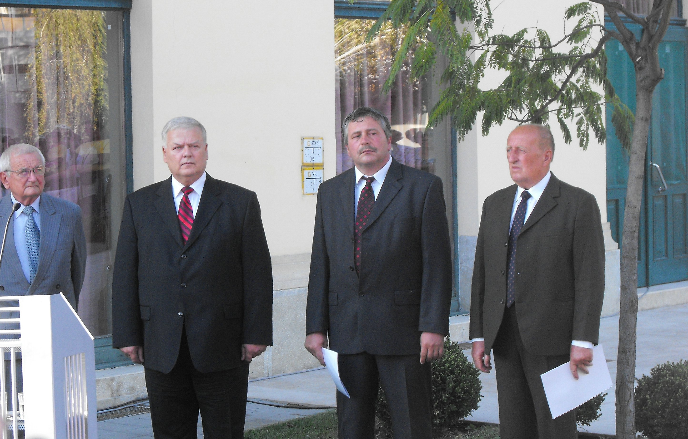 Speakers in the Unveiling Ceremony of Misi Fátyol's Statue; l-r: Tamás Keczer, honorary citizen of Makó; Péter Buzás, Mayor of Makó, Member of Parliament; József Csikota, conductor of a local orchestra; Attila Bozsogi, pianist and composer. Event was held in Széchenyi square, Makó, Hungary.